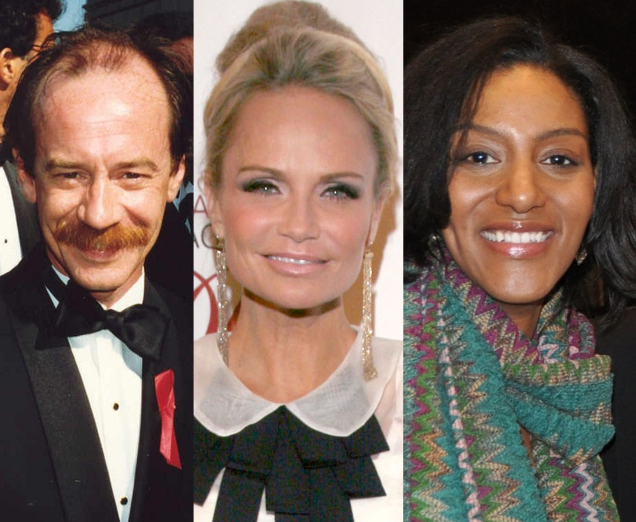 Three actors who played members of the Noodle family on "Elmo's World". Michael Jeter (left) played Mr. Noodle's brother Mr. Noodle. Kristin Chenoweth (middle) played Ms. Noodle. Sarah Jones (right) played Mr. Noodle's other sister Miss Noodle.